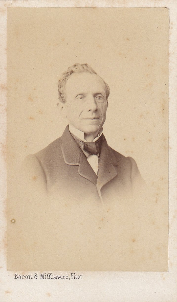 Auguste Van Dievoet